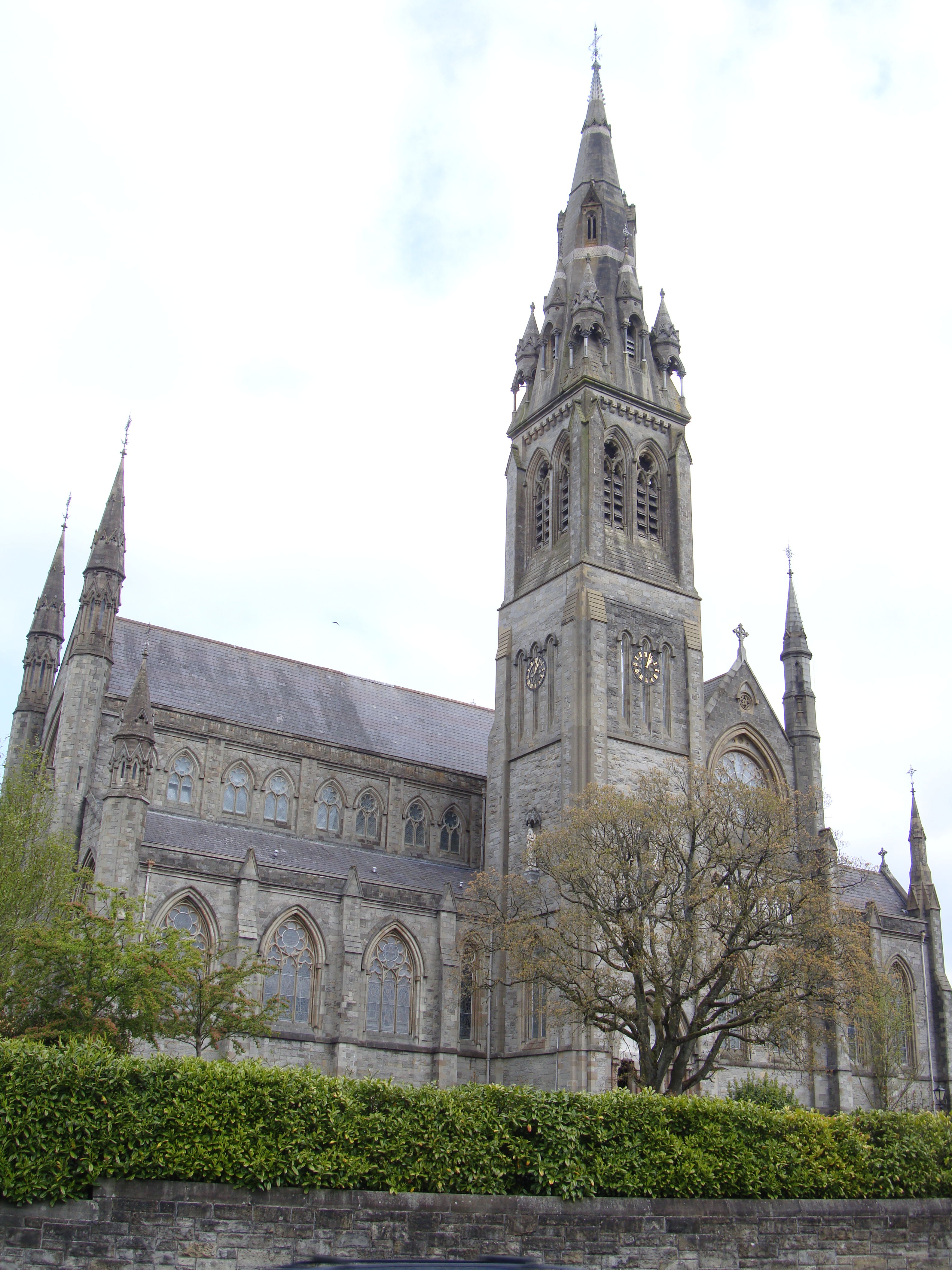 Photograph of St Macartan's Cathedral, Monaghan, Co. Monaghan, Ireland